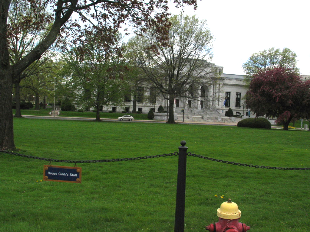 Connecticut State Library and Supreme Court Building.